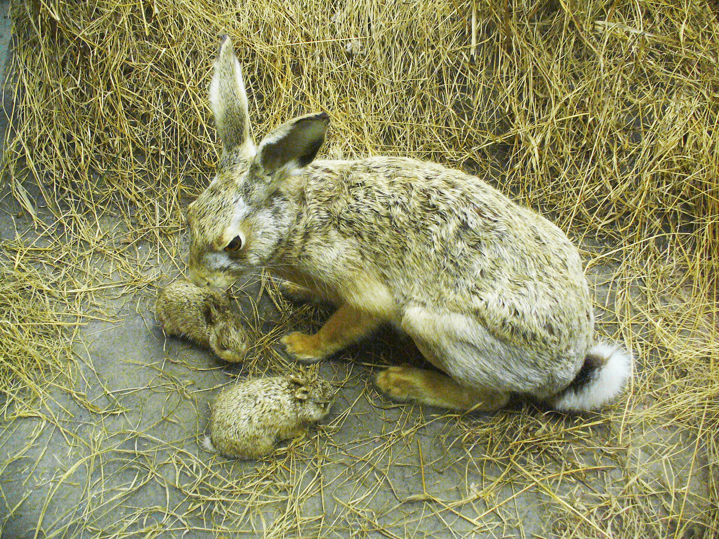 Lepus europaeus, Leporidae, Brown Hare; Staatliches Museum für Naturkunde Karlsruhe, Germany. The coat of the tail is used in homeopathy as remedy: Lepus europaeus (Lep-eu.)